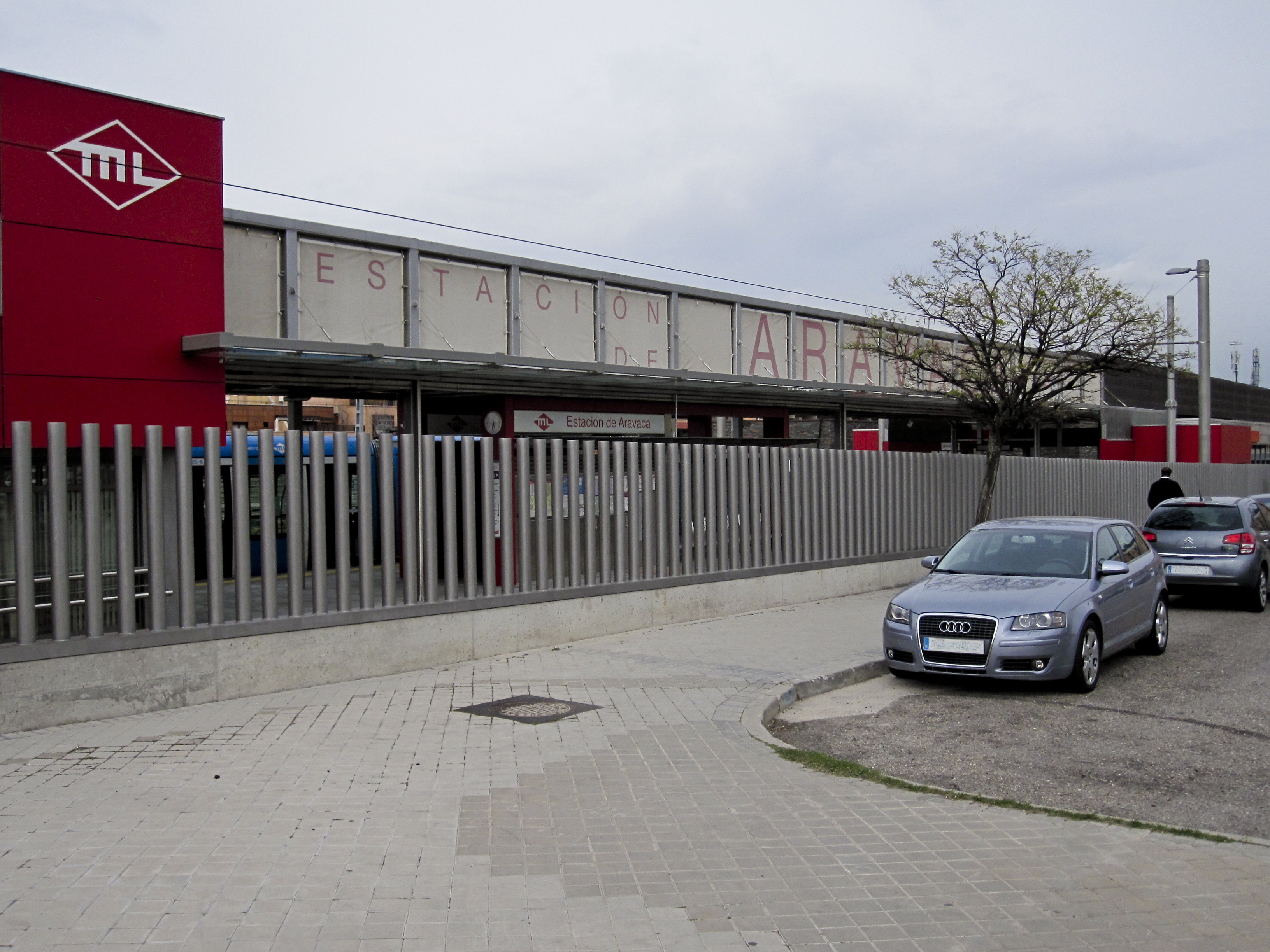 Metro Ligero station in Aravaca, Madrid, Spain.